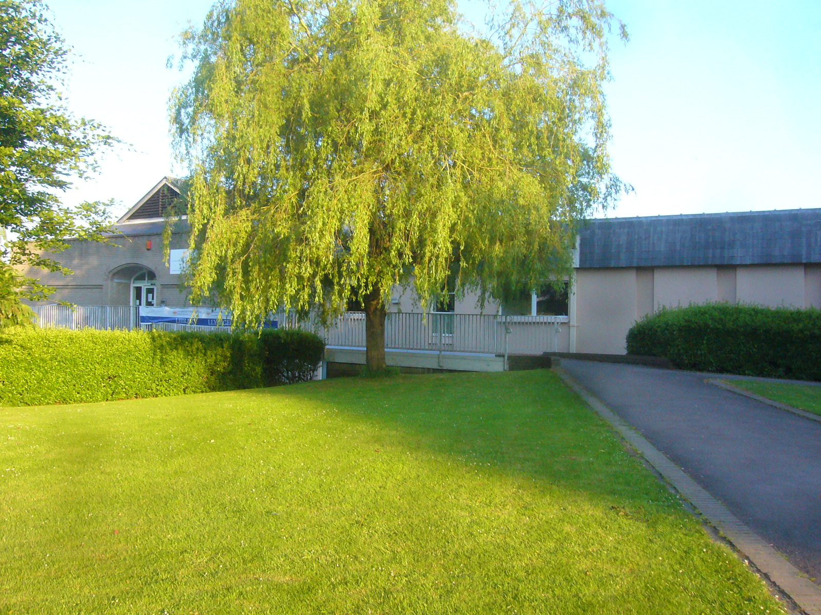 The Main Library, Lampeter